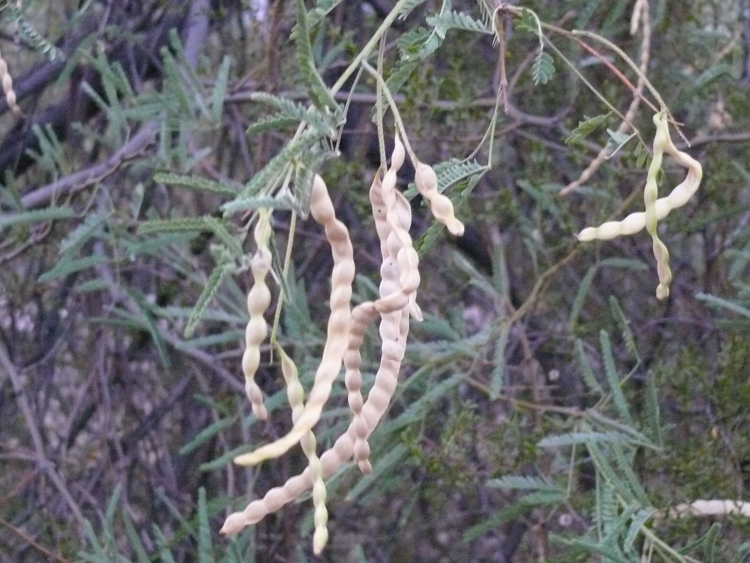 Dry seed pods on a Velvet Mesquite (Prosopis velutina), taken in Tucson, AZ